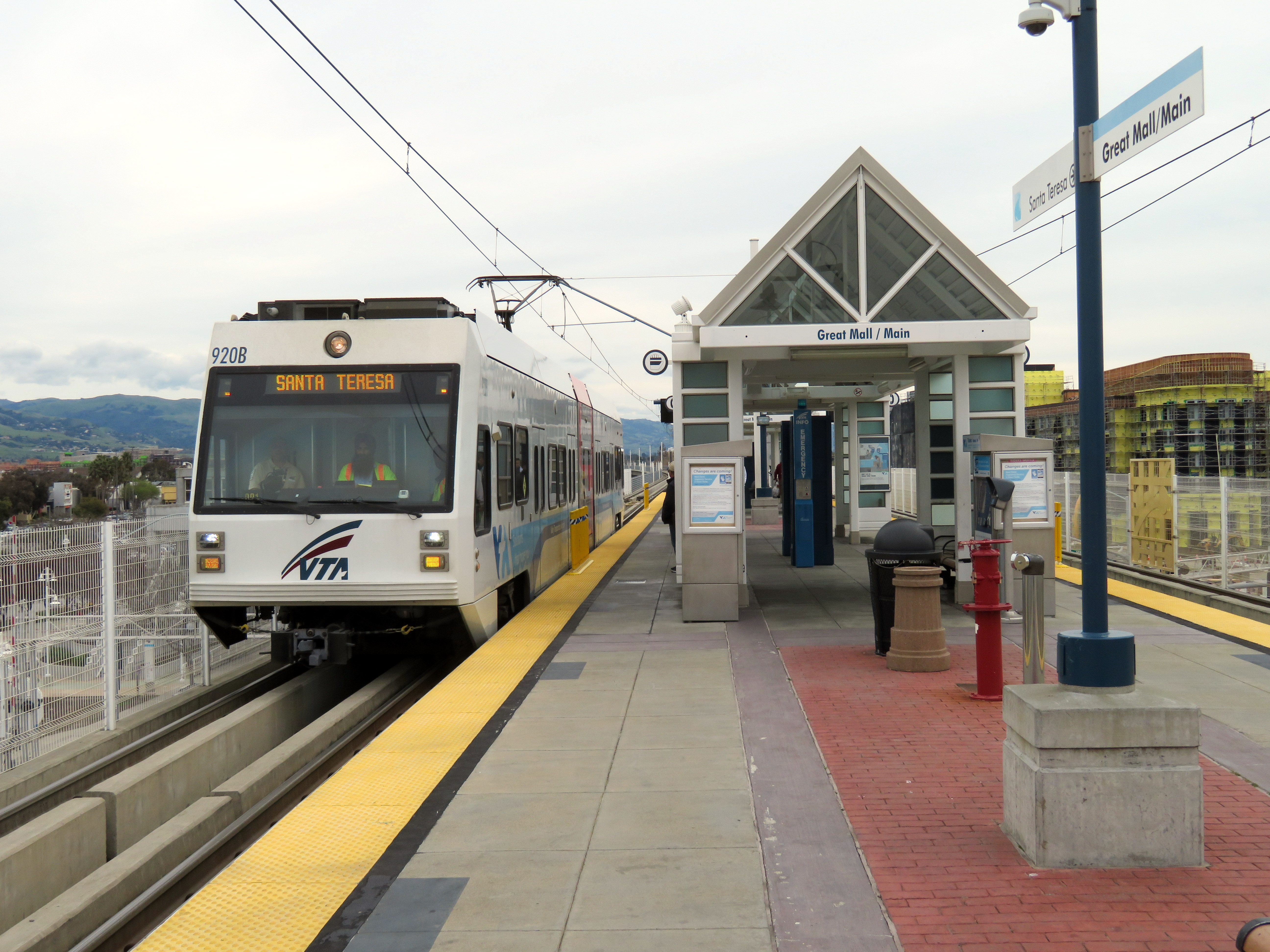 Northbound train at Great Mall/Main Transit Center in March 2018